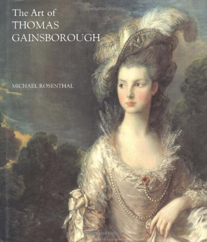 Cover of The art of Thomas Gainsborough: "A little business for the eye". Yale University Press, New Haven, 1999. ISBN 978-0300081374